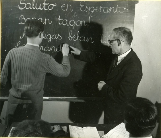 Alfonso Pechan Esperanto language teaching